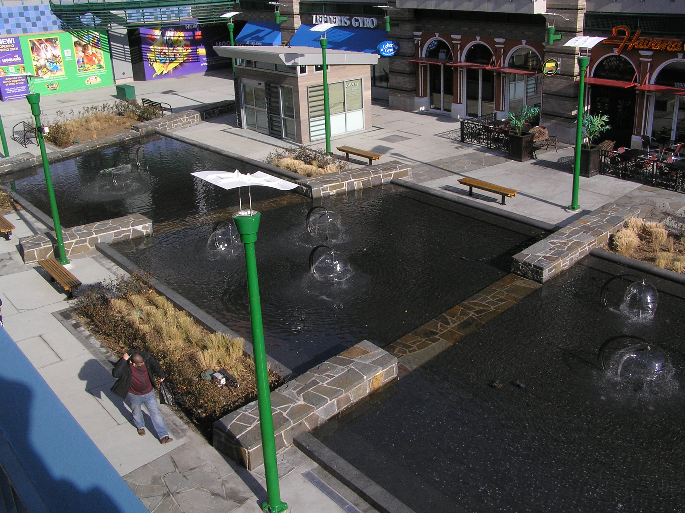 I took a walk up to the second level of the Ridge Hill Shopping Center on a balmy day, January 8, 2013, and snapped an interesting picture of the fountains on the main plaza below. The person in the lower left of the photo provides needed scale. This picture is much better than the photos that I snapped at ground level.